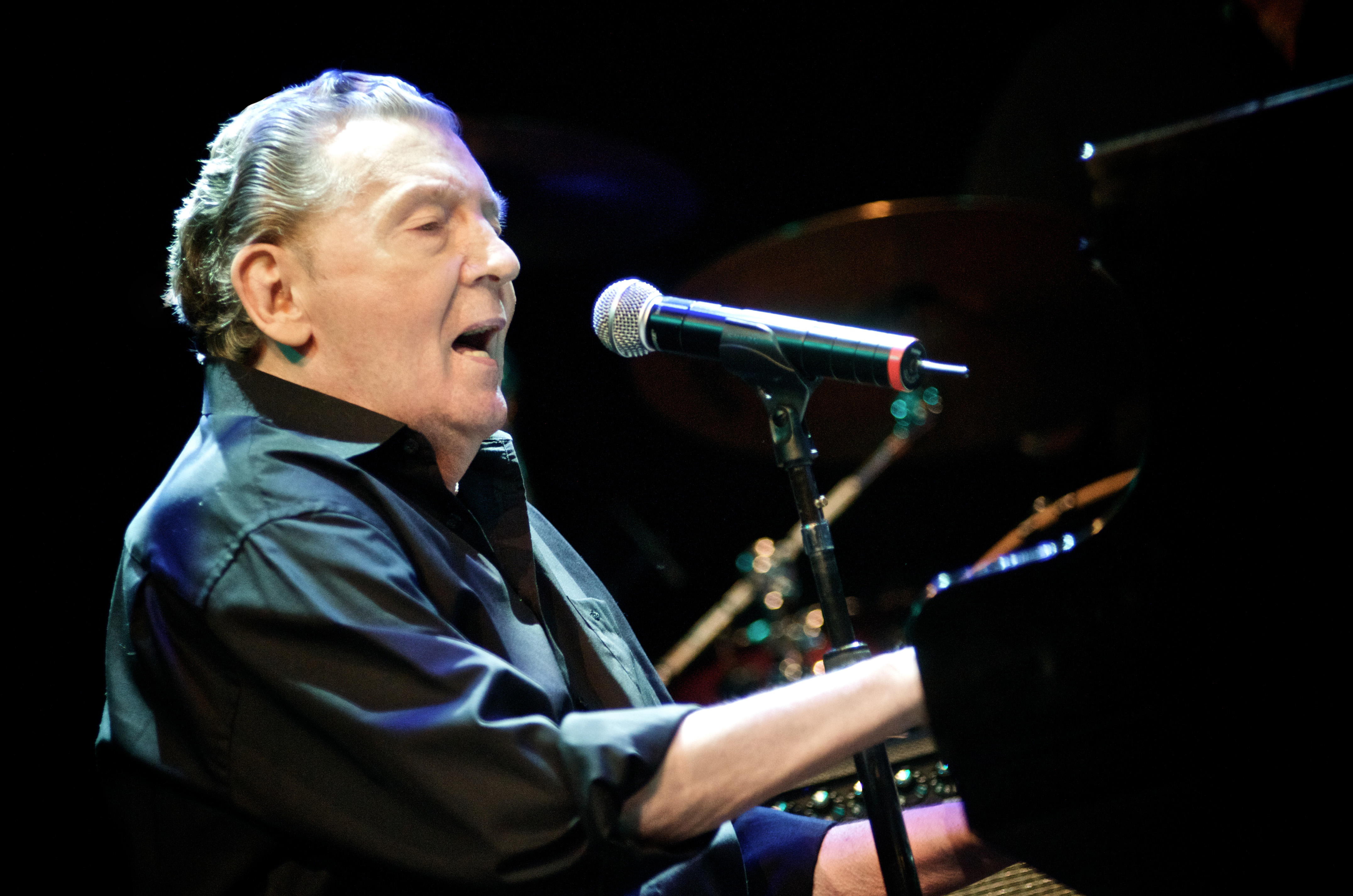 Jerry Lee Lewis in Credicard Hall, São Paulo, Brazil.